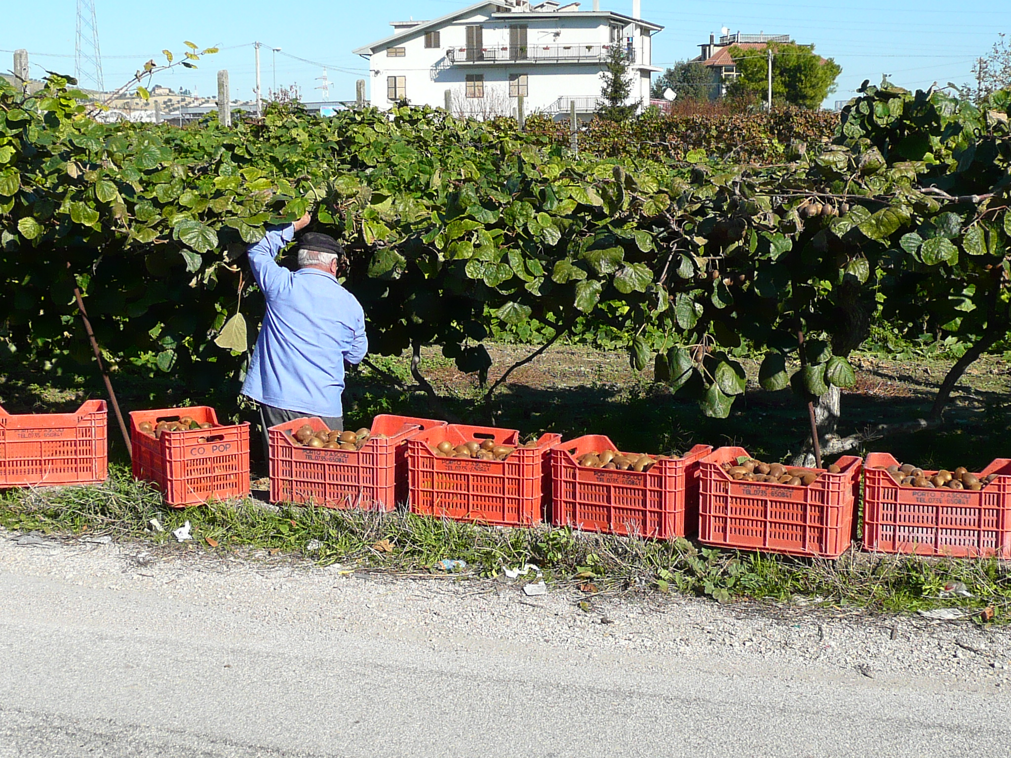 Picking kiwi fruits in Italy.